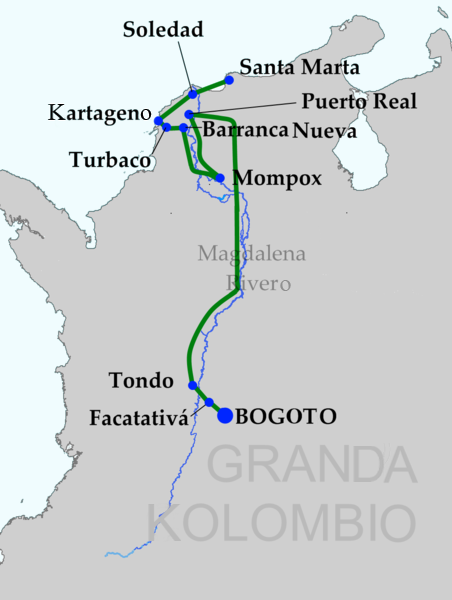 Route of Simón Bolívar as described in The General in his Labyrinth by Gabriel García Márquez in Esperanto